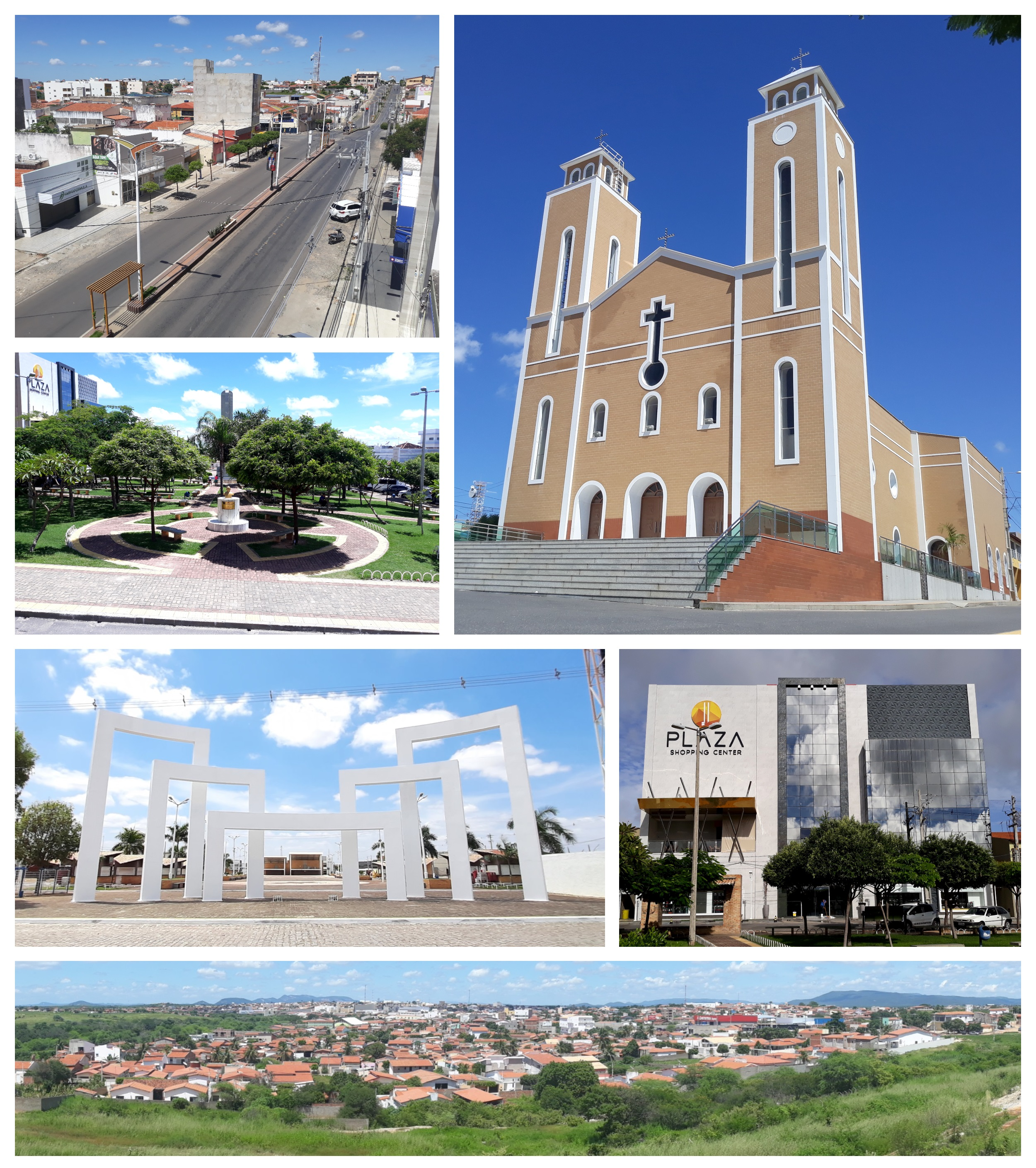 Clockwise: Independence Avenue; Church of Nossa Senhora da Conceição; Plaza Shopping Center; panoramic view of the city taken from Hotel Jatobá; Events Square Our Lady of Conception and Monsignor Caminha Square, with the Obelisk at found - Pau dos Ferros, Rio Grande do Norte state, Brazil.